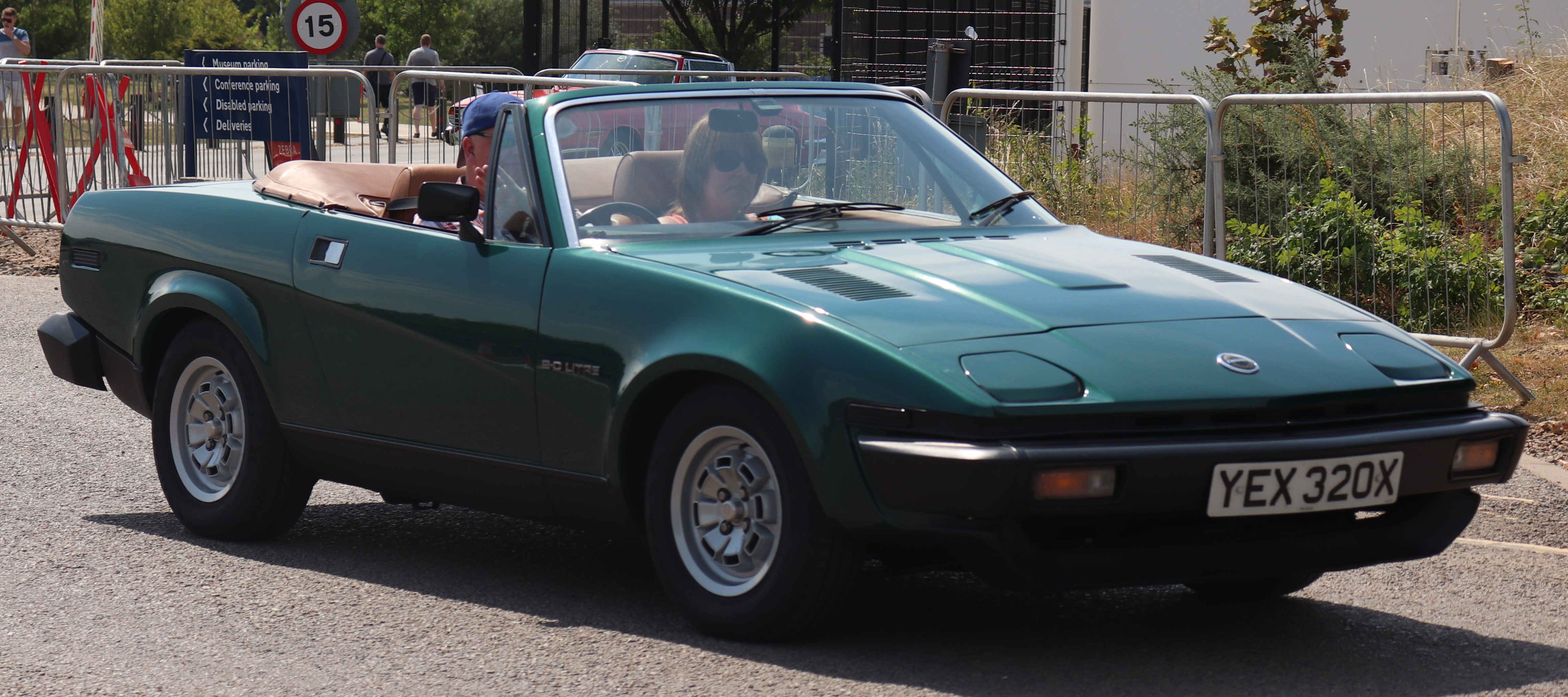 1982 Triumph TR7 Convertible 2.0 Taken at the British Motor Museum BMC & Leyland Show 2018, Gaydon